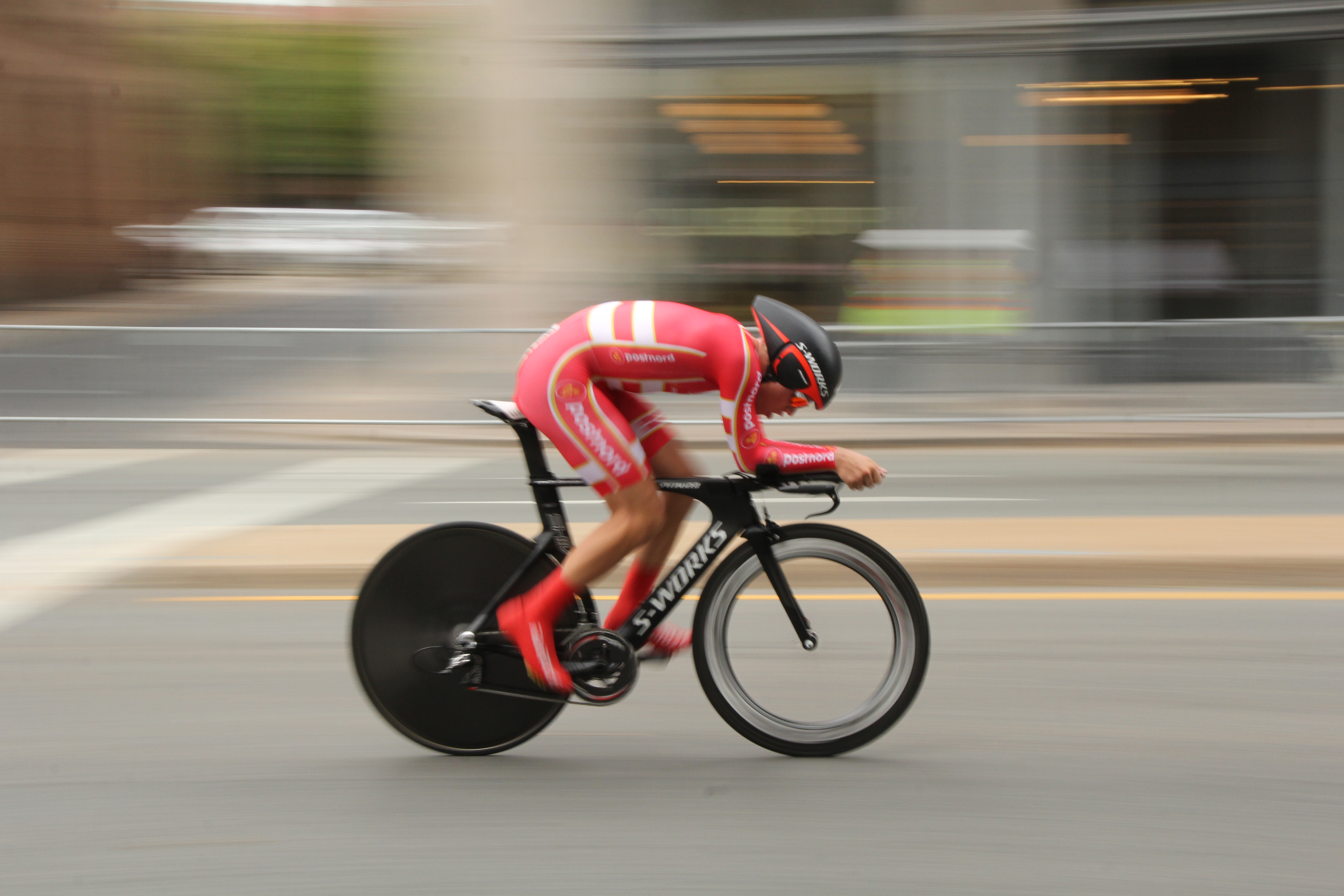 The world has come to Richmond. Welcome! Bienvenidos! Willkommen! 2015 UCI Road World Championships, in Richmond, United States